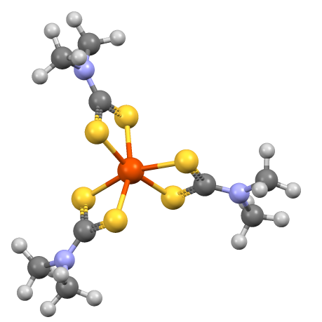 Structure of Fe(S2CNMe2)3